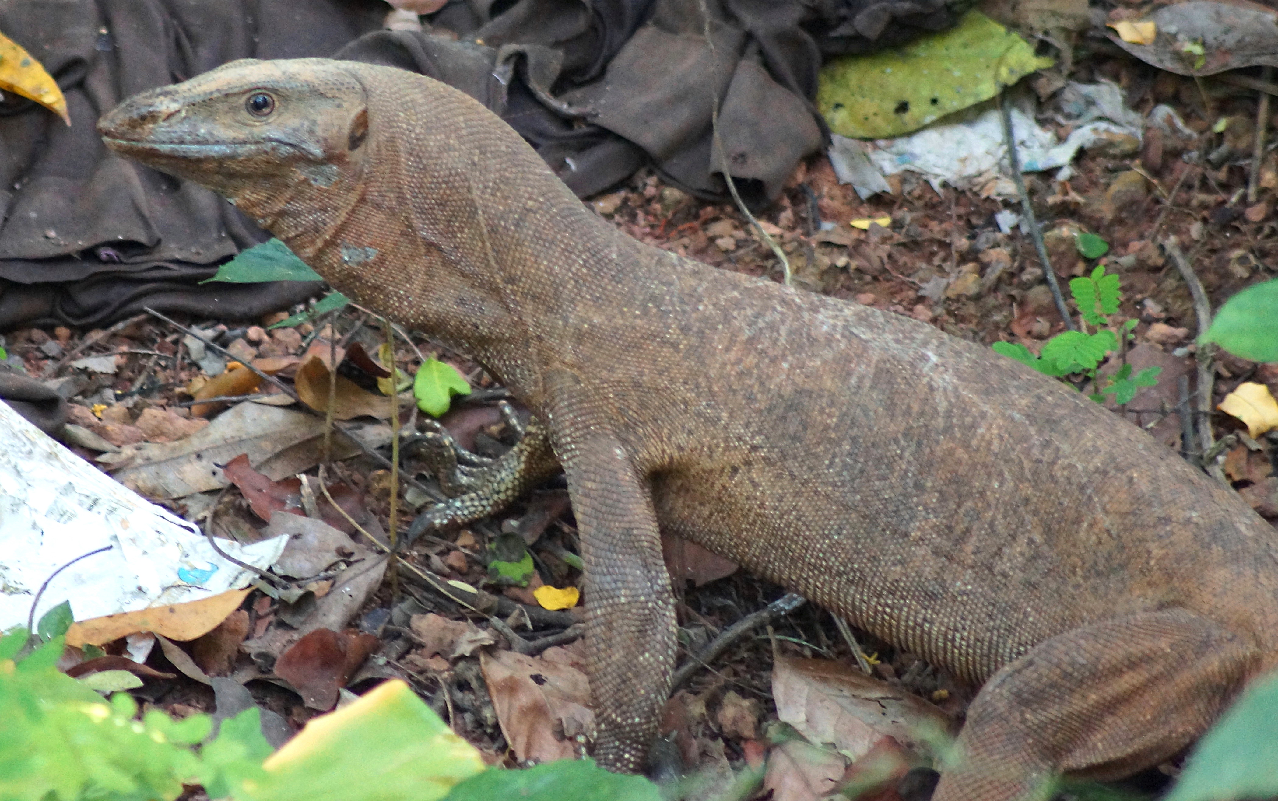 Kerala,India